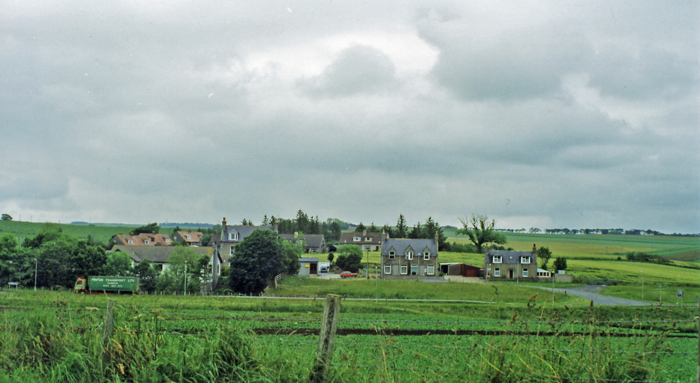 Site of Auchnagatt station. View eastward from A948 road: ex-GNSR (Aberdeen) - Dyce (to right) - Maud - Fraserburgh/Peterhead lines. The station - somewhere in the village here - was closed 4/10/65 when passenger services to Fraserburgh ceased, but handled goods here until 28/3/66 and the line was not closed until 4/10/79.